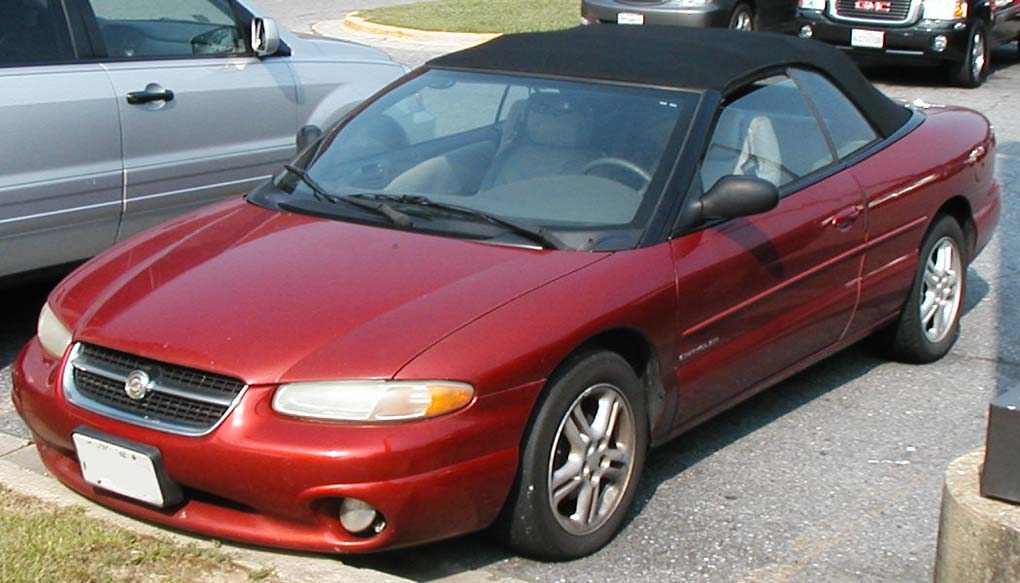 1996-2000 Chrysler Sebring convertible photographed in USA.